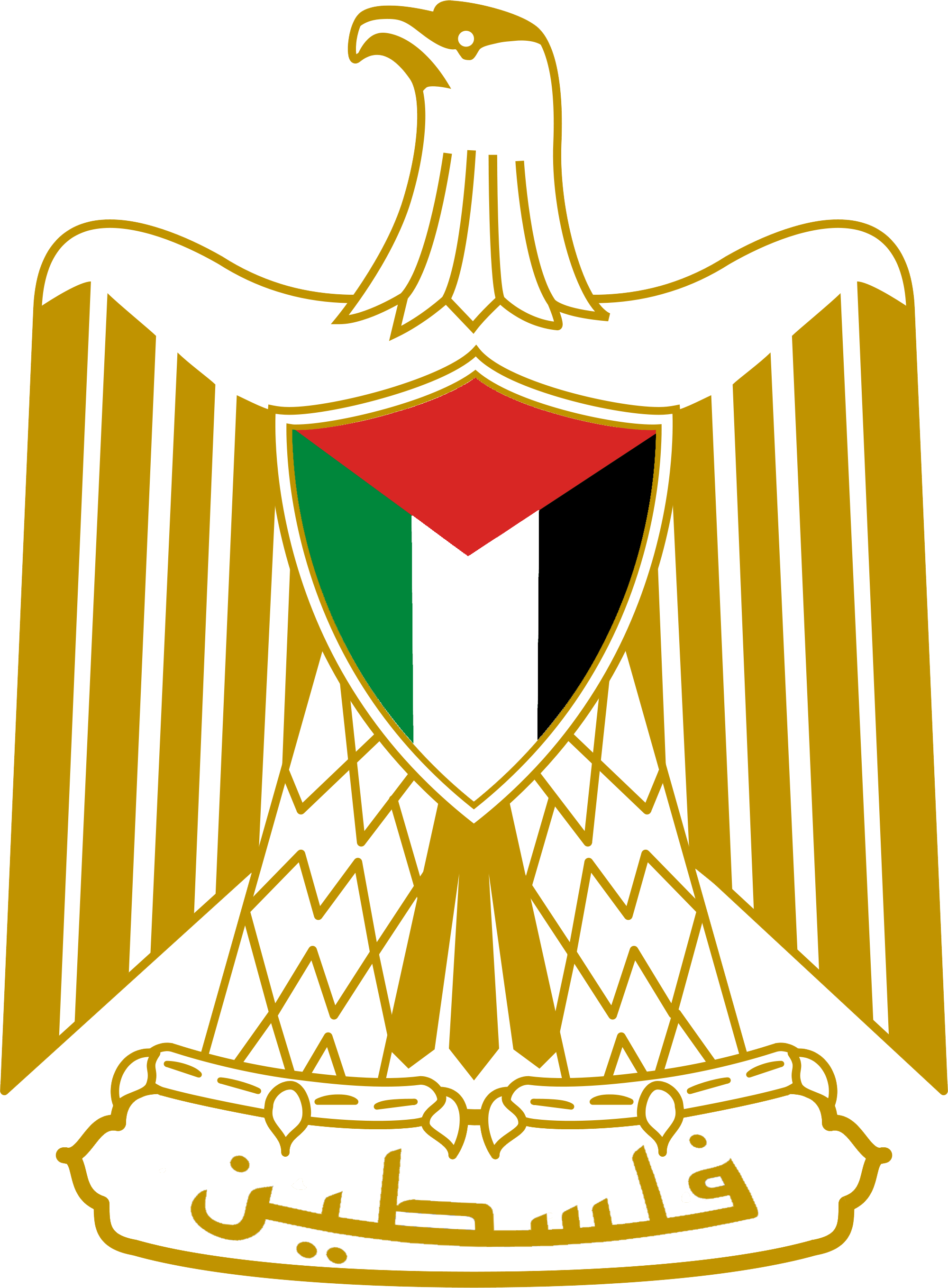 Coat of arms of State of Palestine